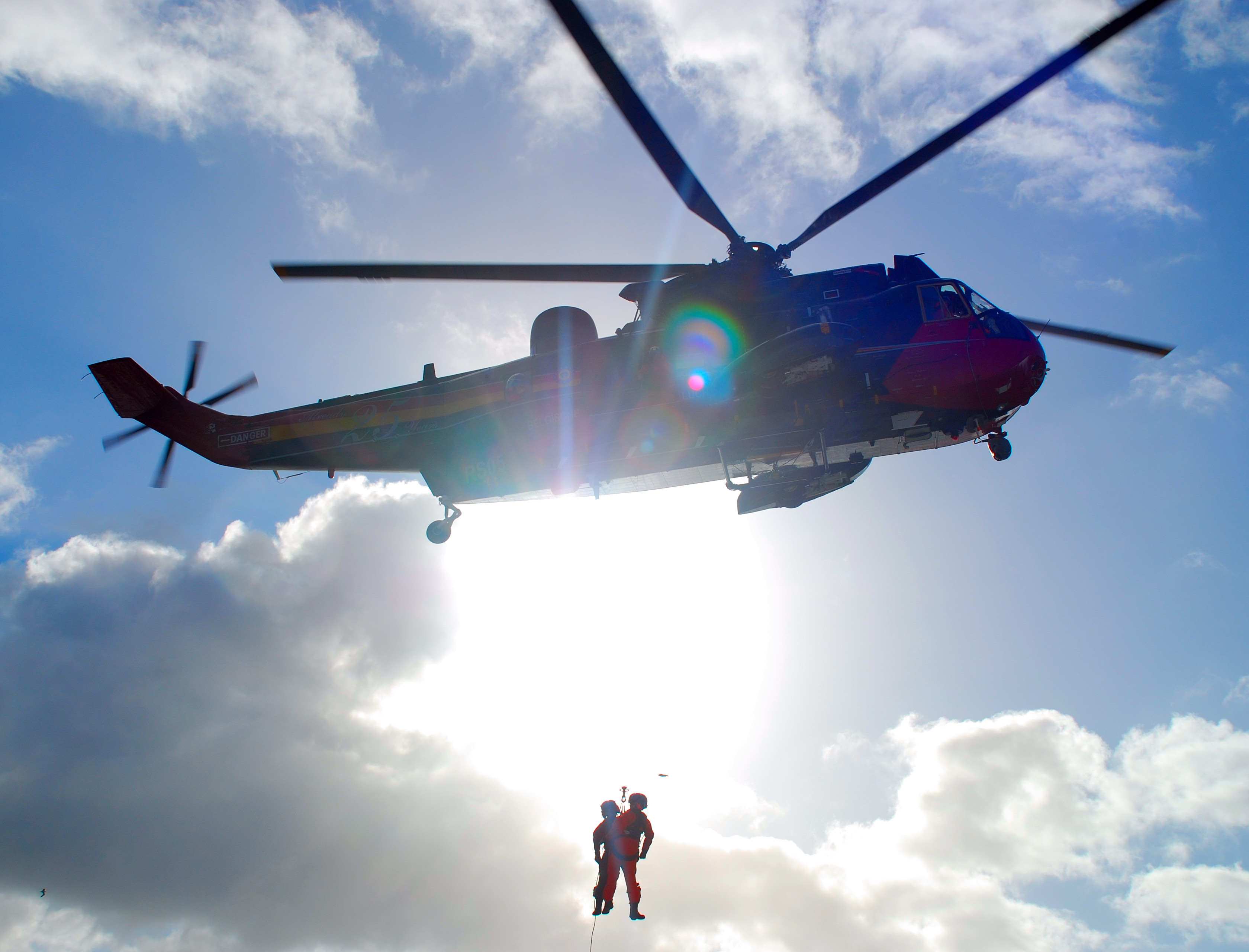 A Belgian Westland Sea King at work doing a rescue operation.